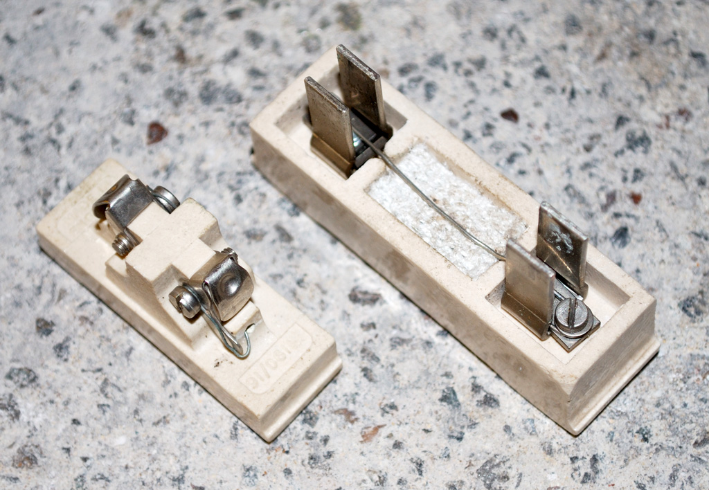 30A and 15A rewirable fuse holders manufactured c.1957 by MEM, as used in their contemporary consumer units.